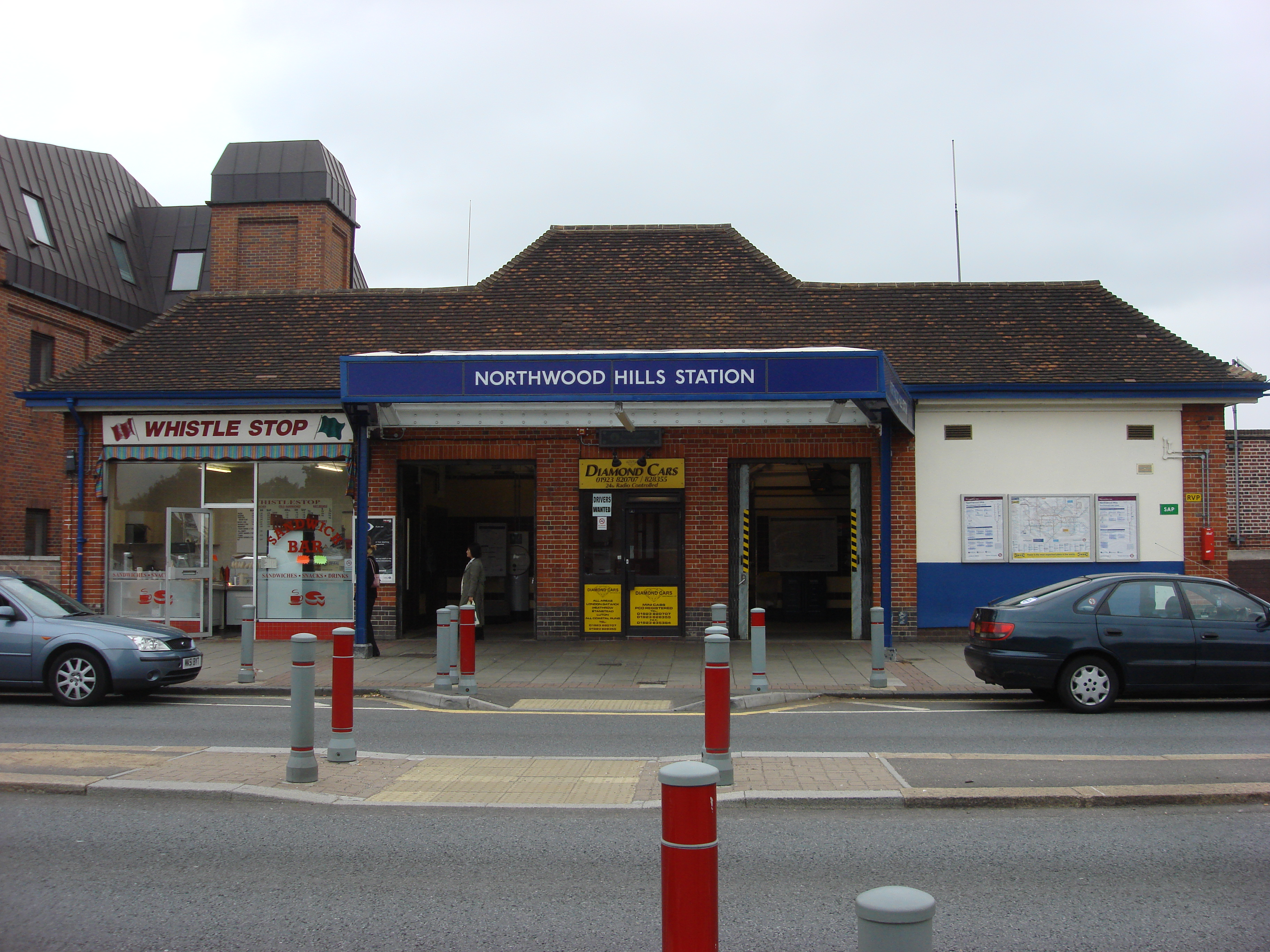 Northwood Hills tube station